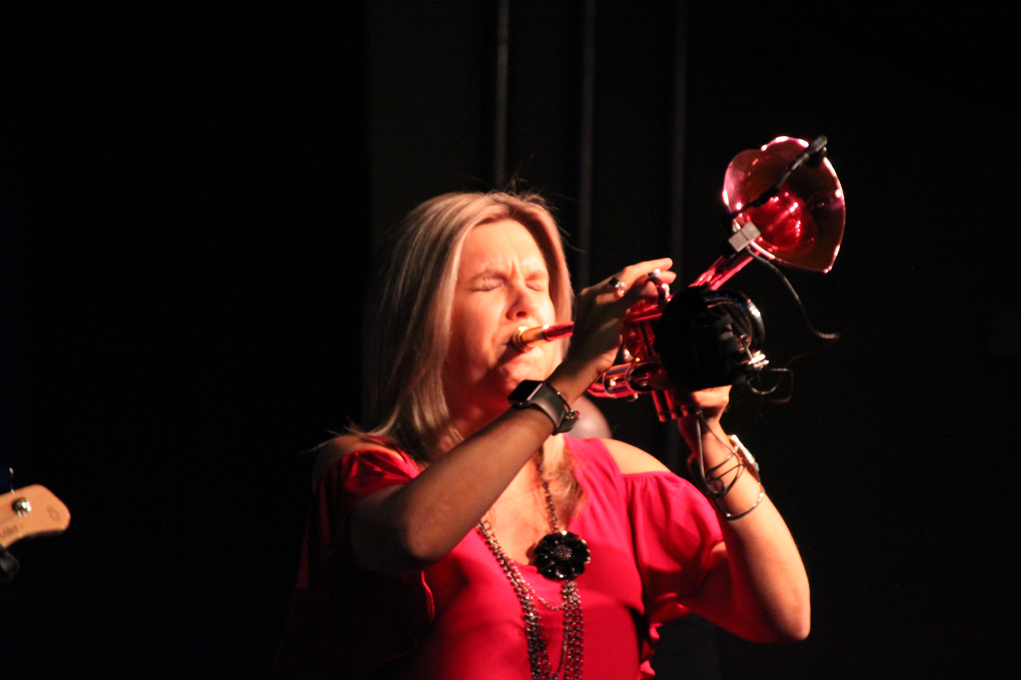 Cindy Bradley in Richmond VA, 01-19-2020